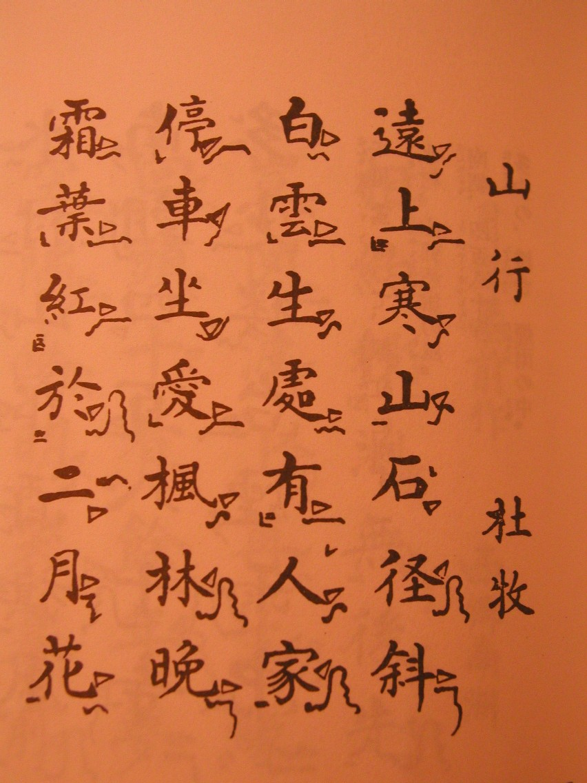 Poem, traditional